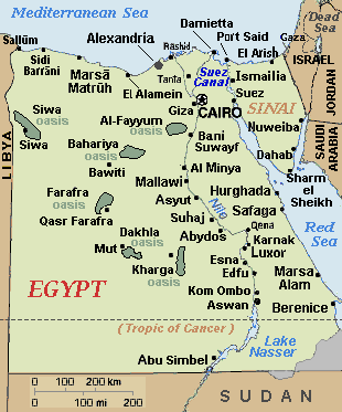 Regional map of Egypt, with main cities and oasis areas labeled, plus scale of miles/km (approximate). The file is in GIF format, 10x times faster than PNG format, for rapid display and to allow precise edits when adding other towns in the future. Re-labeled to include 6 oasis areas, with "Giza" and sea-side towns, plus dotted line for Tropic of Cancer.